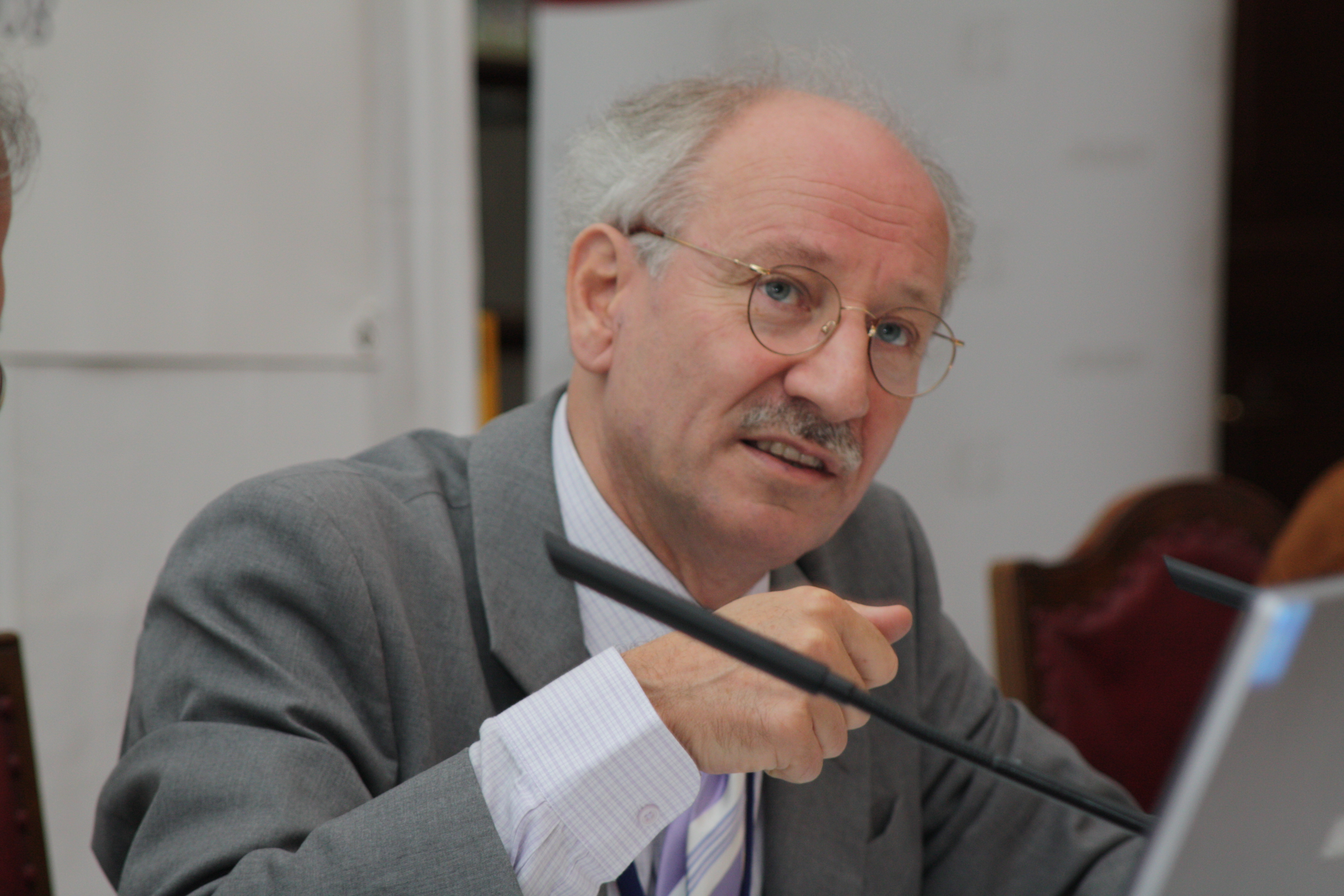 Prof. Dr. Bernd Marin at the AARP/European Centre Conference "Reinventing Retirement: Reshaping Health & Financial Security for the EU 27 and Eastern Europe" in Dürnstein/Austria, 23 October 2008